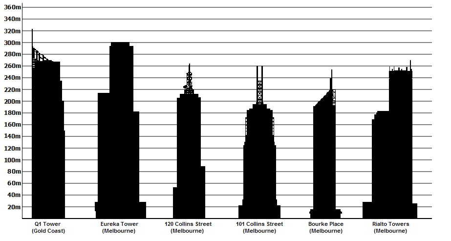 The 6 tallest buildings in Australia